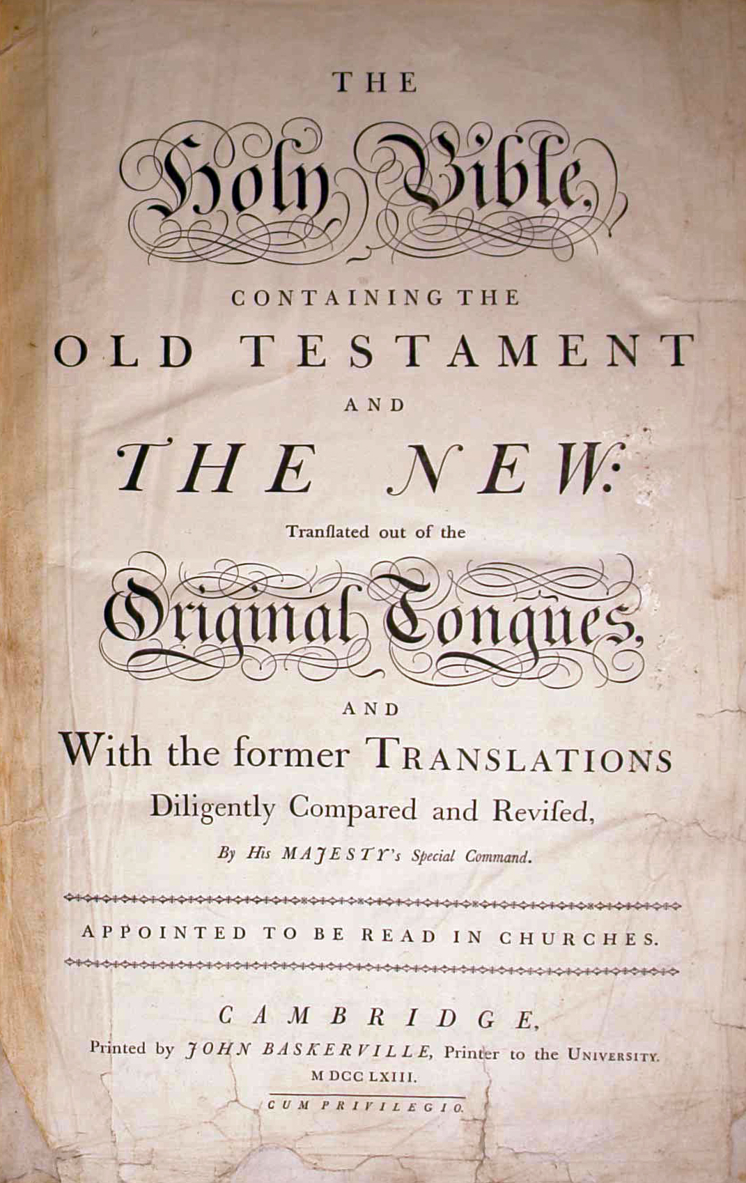 The Bible printed and edited by John Baskerville.